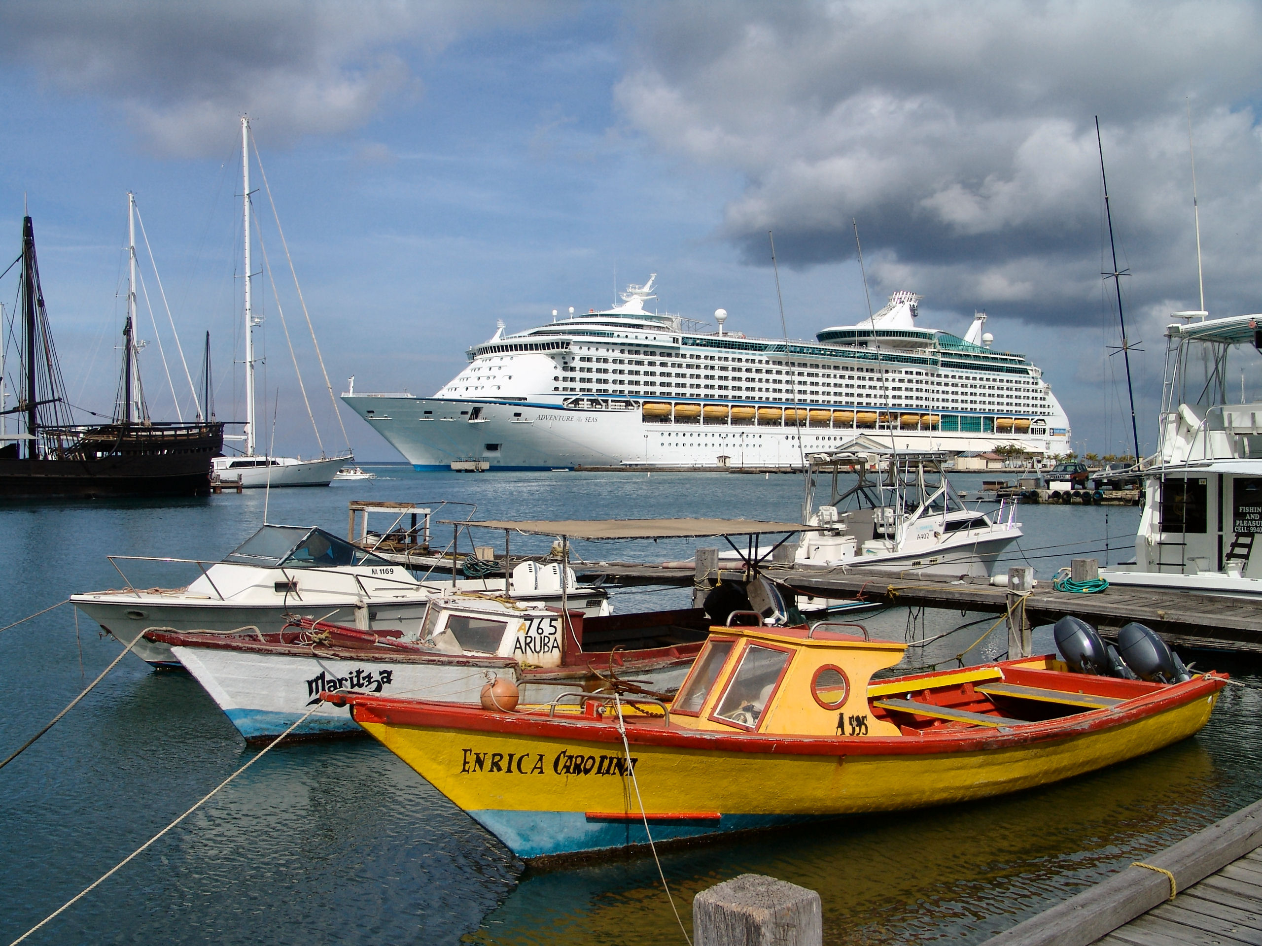 Local fishing boats at Aruba in the Caribbean. "Adventure of the Seas" is in the background.